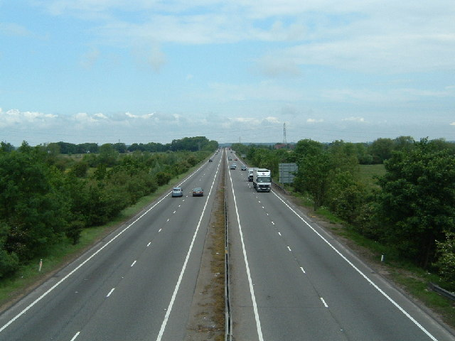 A34 looking North. Taken from the footbridge over the A34, Milton Lane between Steventon and Milton